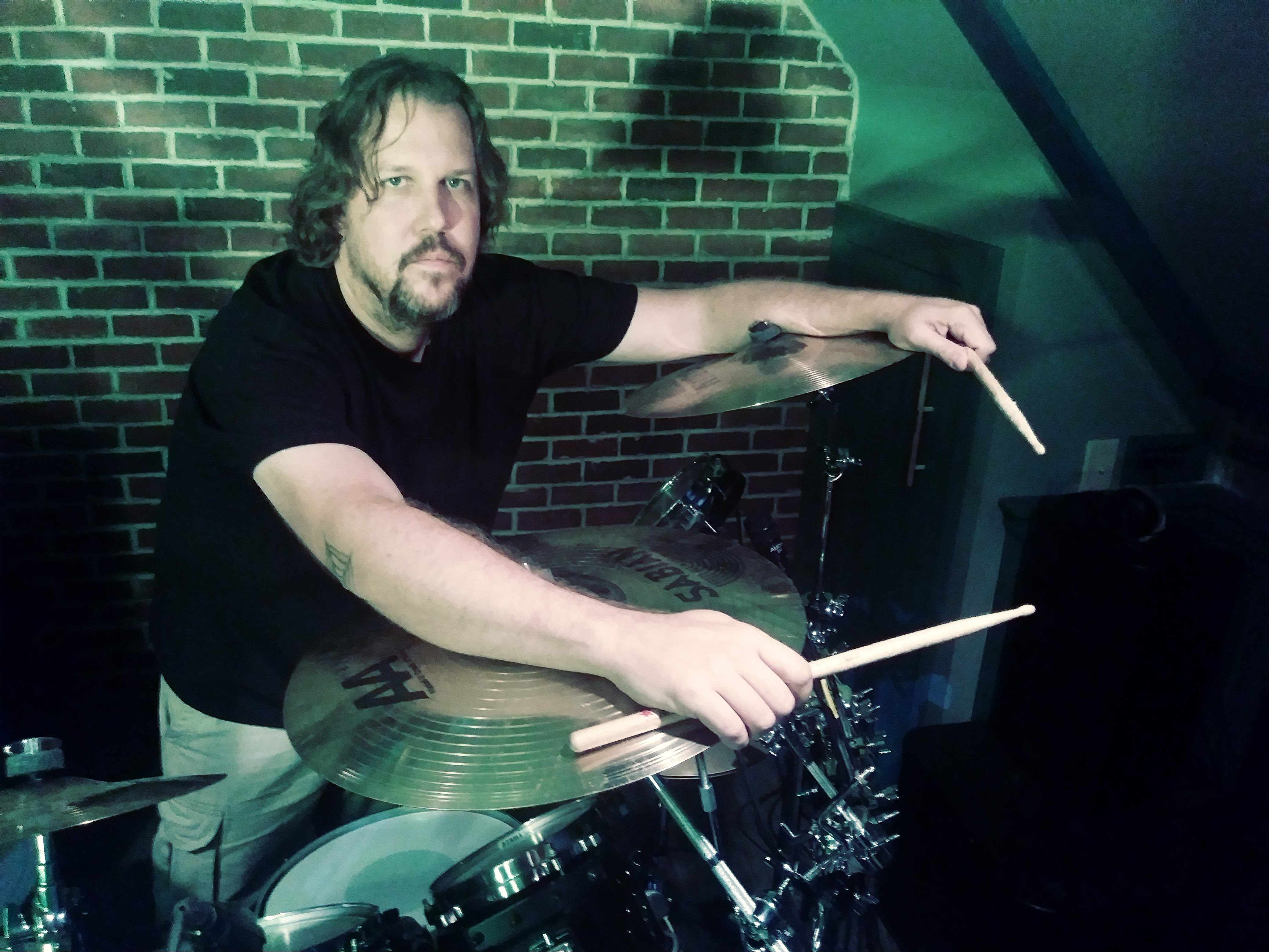 Jawbone Rodeo recording session 2017 Greenville SC